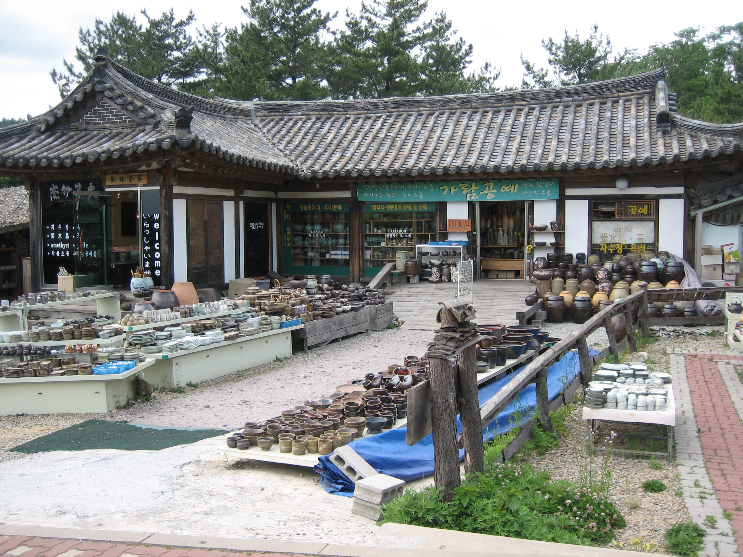 The Gyeongju Folkcraft Village located in Gyeongju, North Gyeongsang province, South Korea